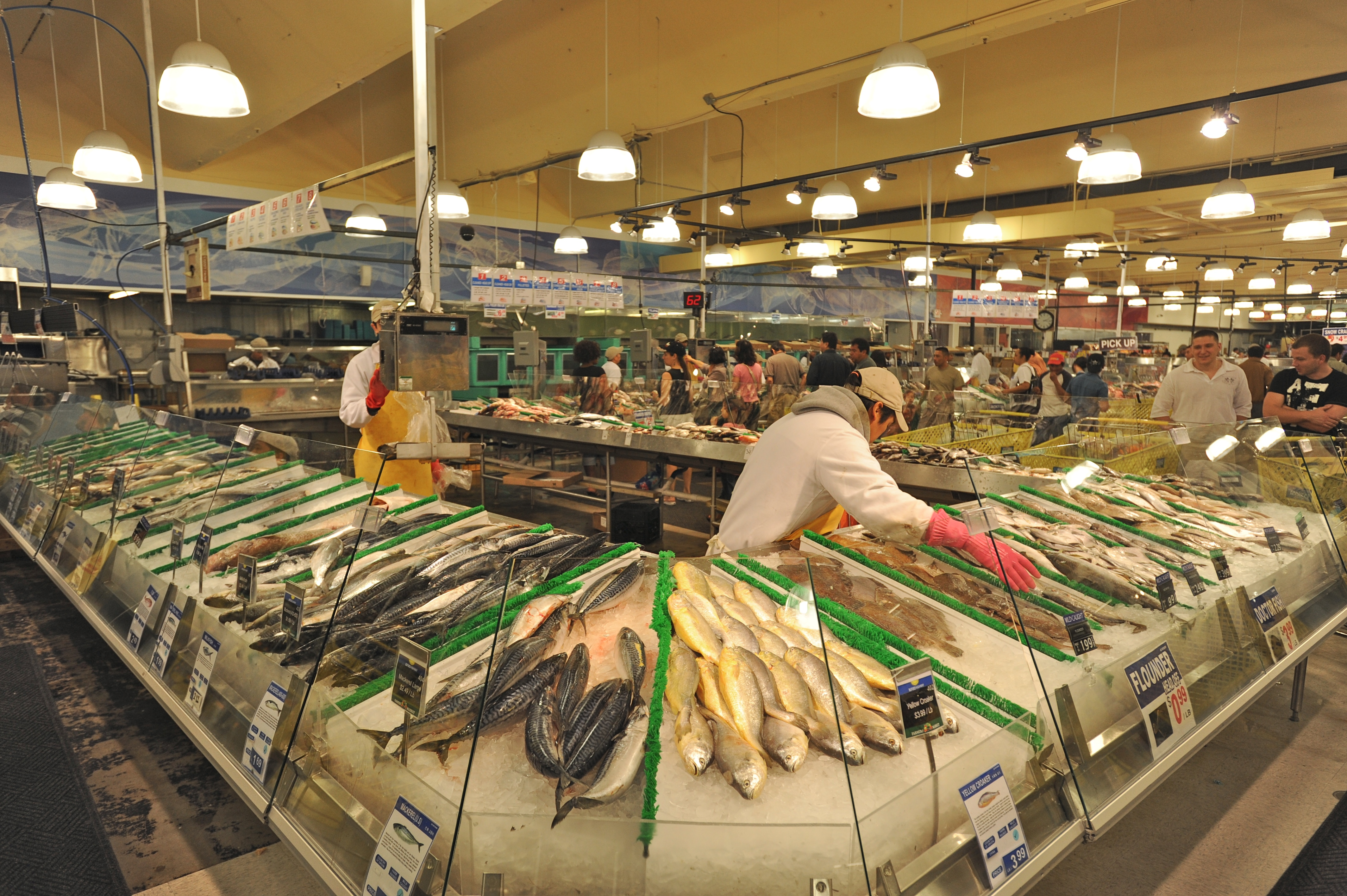 Harold Shinn is the president of the Buford Highway Farmer's Market in Doraville, Georgia. Atlanta's Buford Highway - Atlanta, GA Photo by Kate Medley Spring 2010